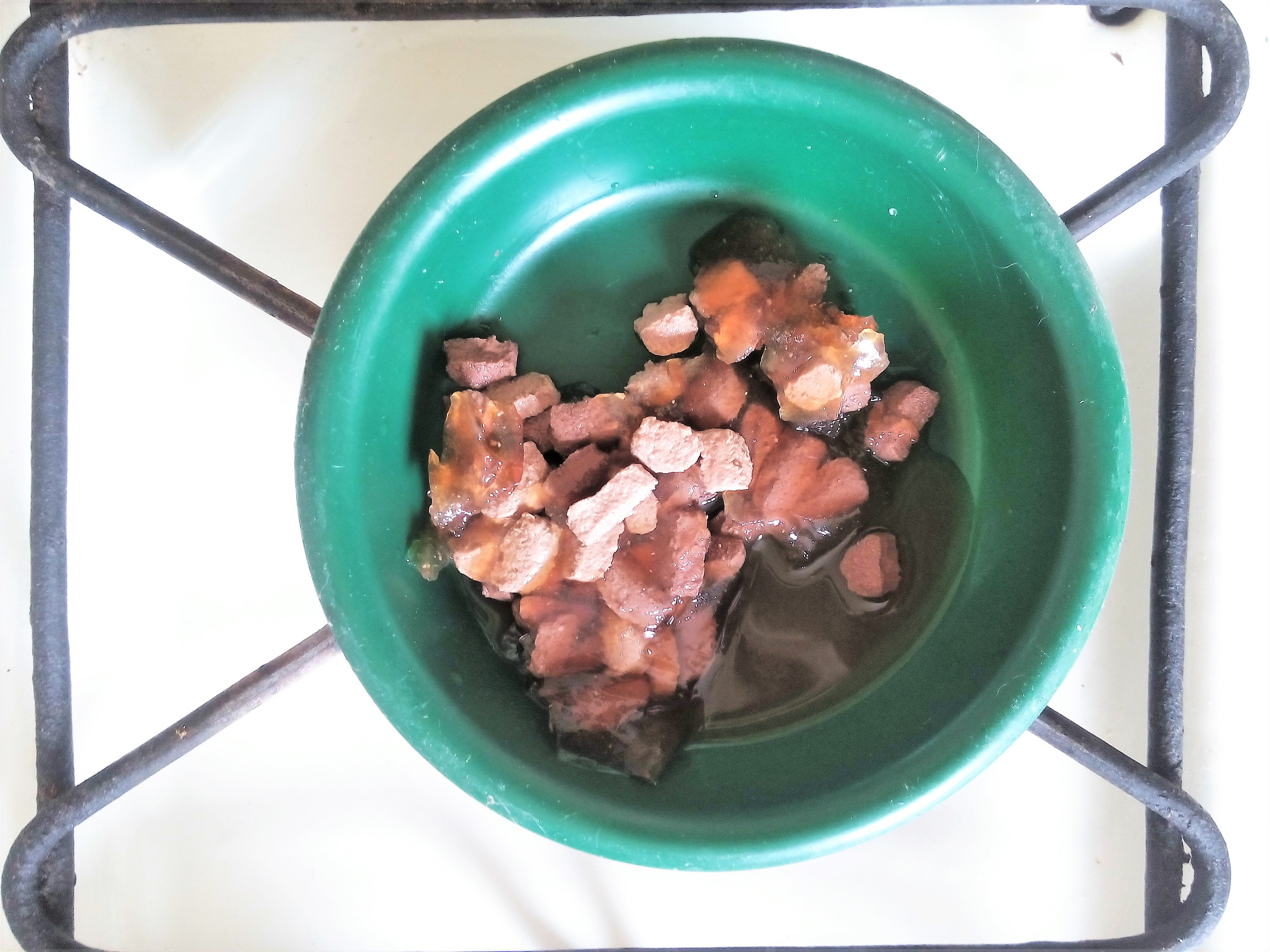 Whiskas cat's petfood with chicken, Chernihiv, Ukraine, 2017